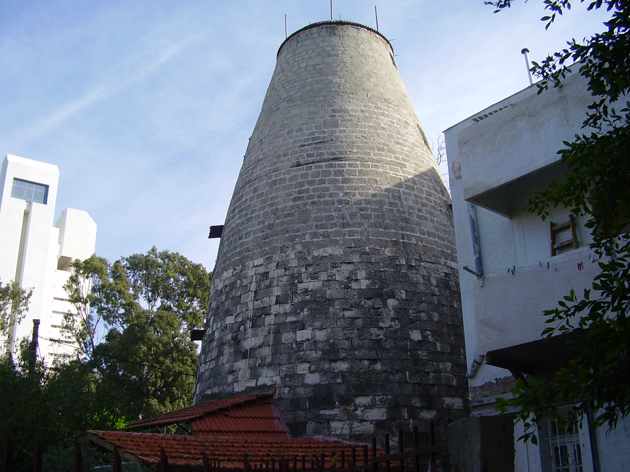 windmill in bat-galim, haifa